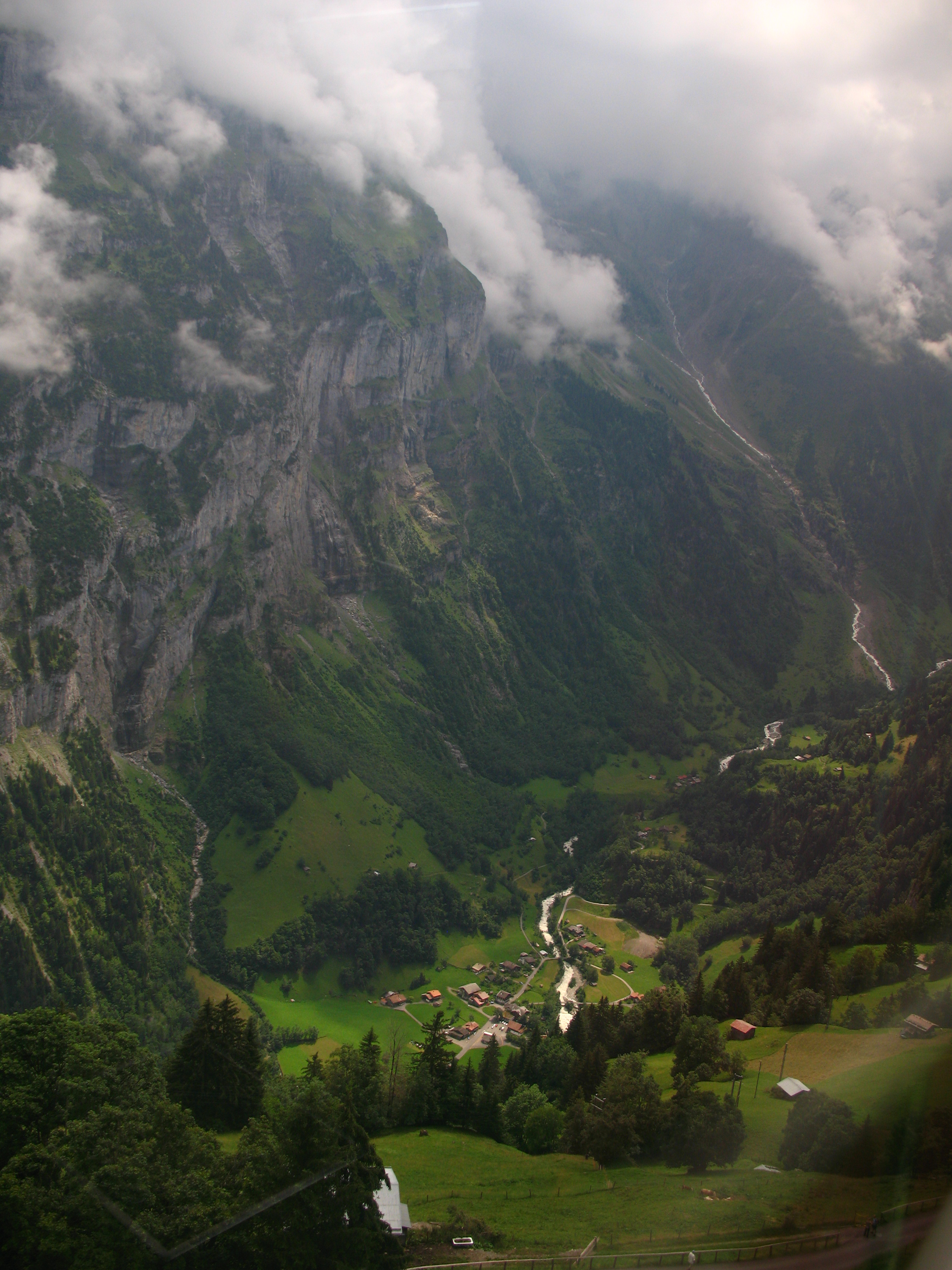 Stechelberg viewed from the Schilthorn cable car, Switzerland - Google Maps - Google Earth